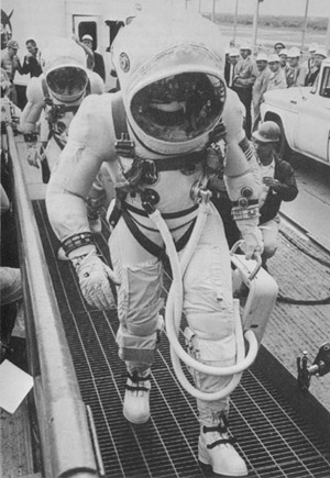 Astronauts Frank Borman and James A. Lovell, Jr., walking up the ramp to the elevator at pad 19 prior to their Gemini VII flight. They are wearing the new lightweight G5C suits.